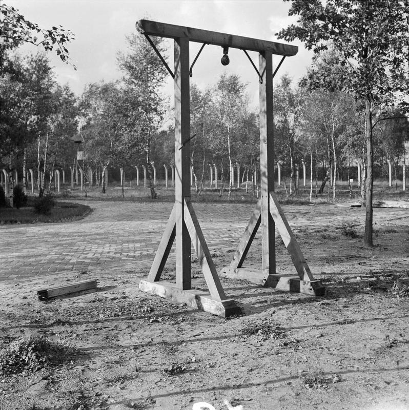 Nazi Persecution Vught Concentration Camp: A portable gallows for executions in Vught concentration camp.